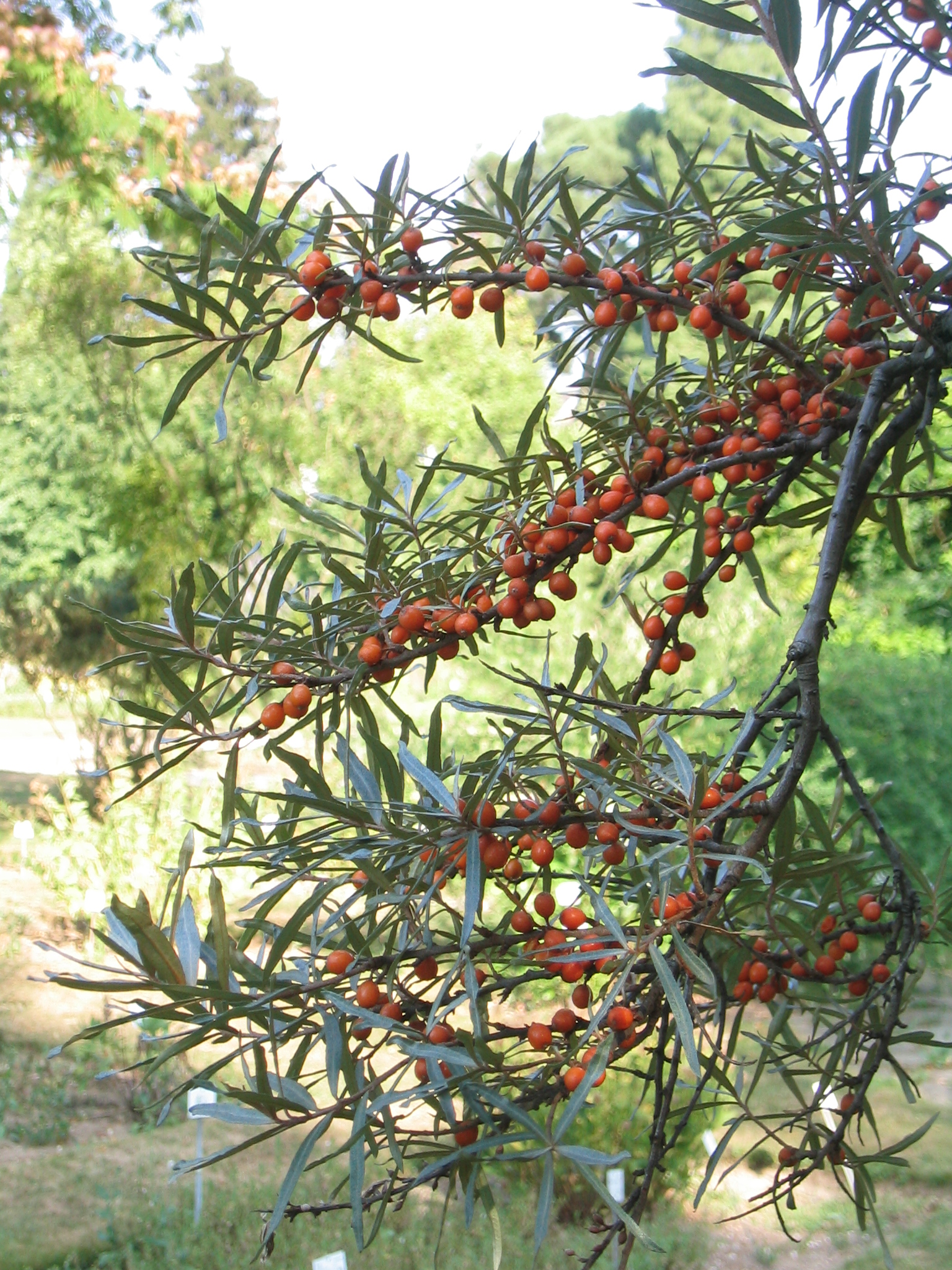 Common sea-buckthorn (Hippophae rhamnoides). It is tolerant to salt in the air and soil. It is also widespread in dry sandy condition in dry semi-desert. The fruits can be used to make pies, jams, lotions and liquors. Locality: Botanical Garden, Bonn, Germany.